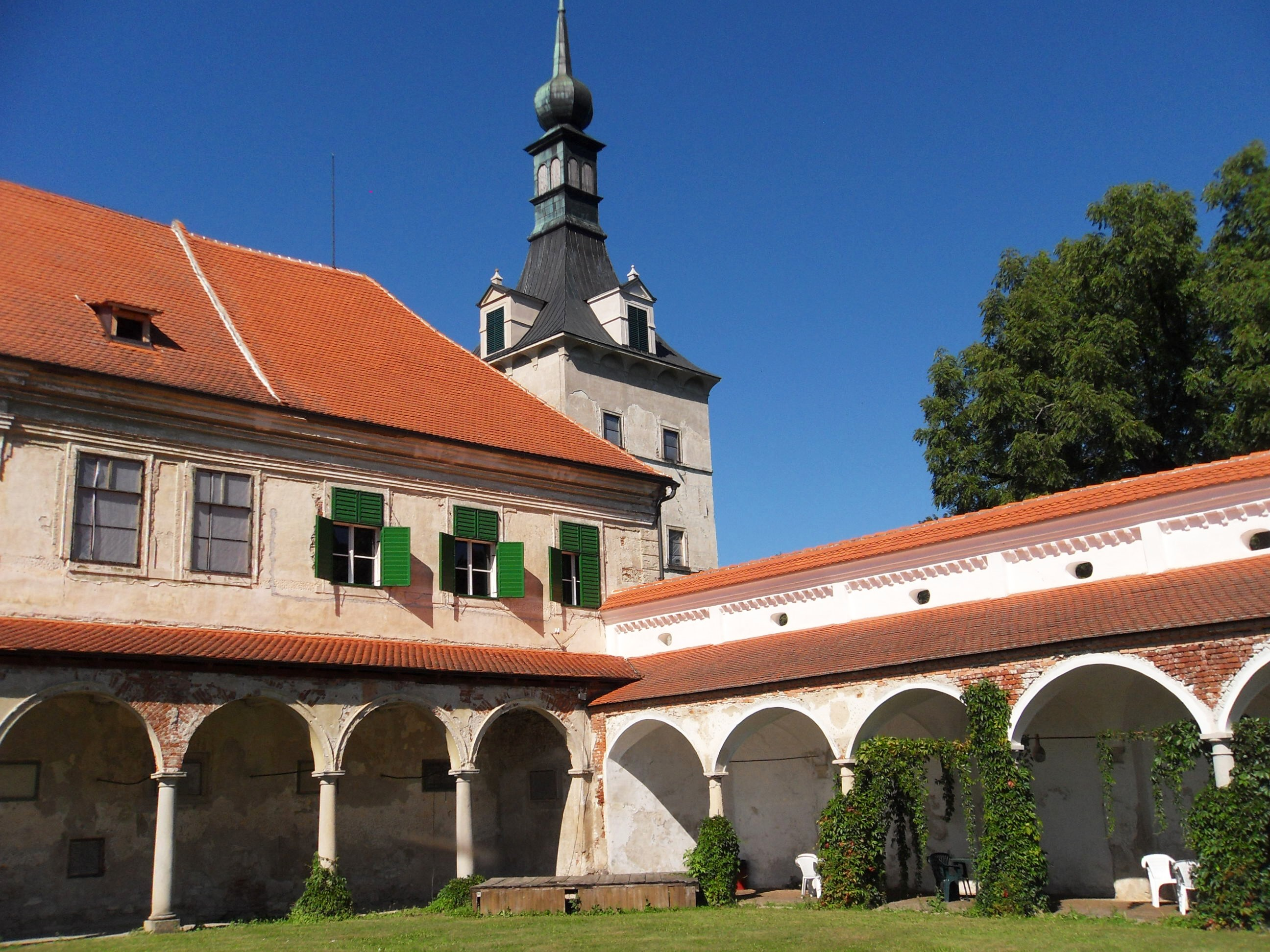 Uherčice castle, Znojmo district, Czech Republic